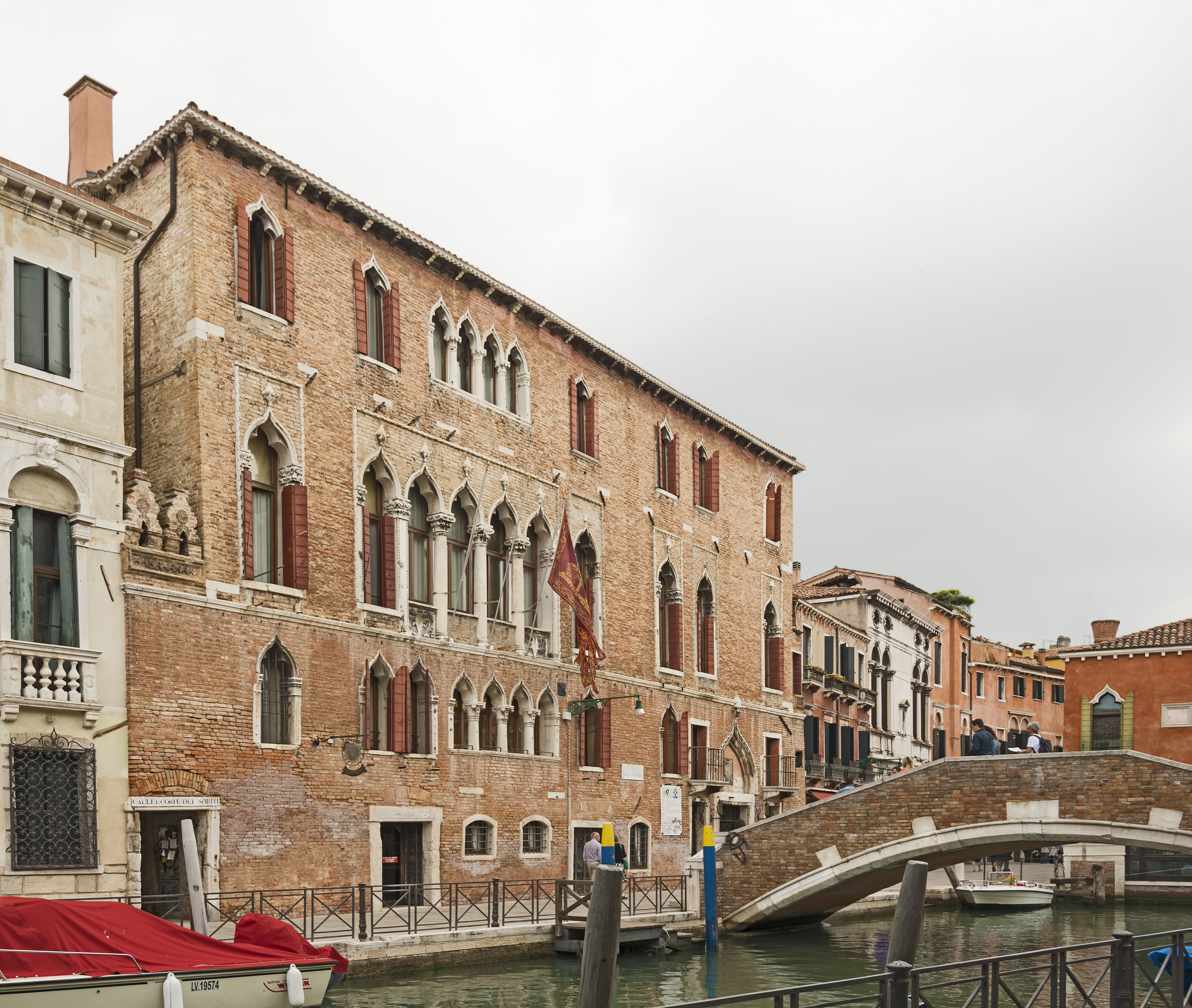 Palace Marcello, facade on rio del Gaffaro